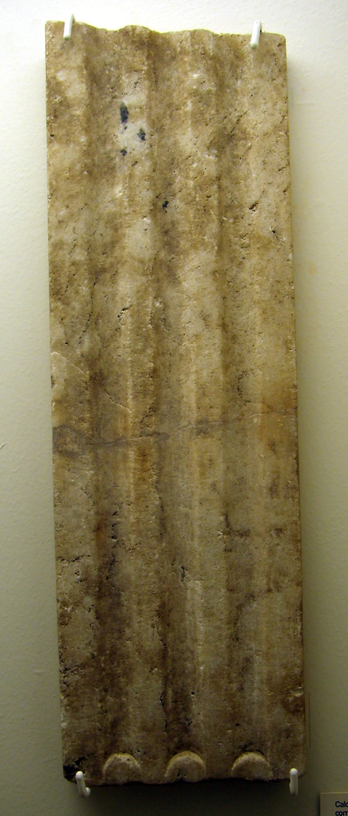 Calcite most likely once used to clad an arch in Verulamium